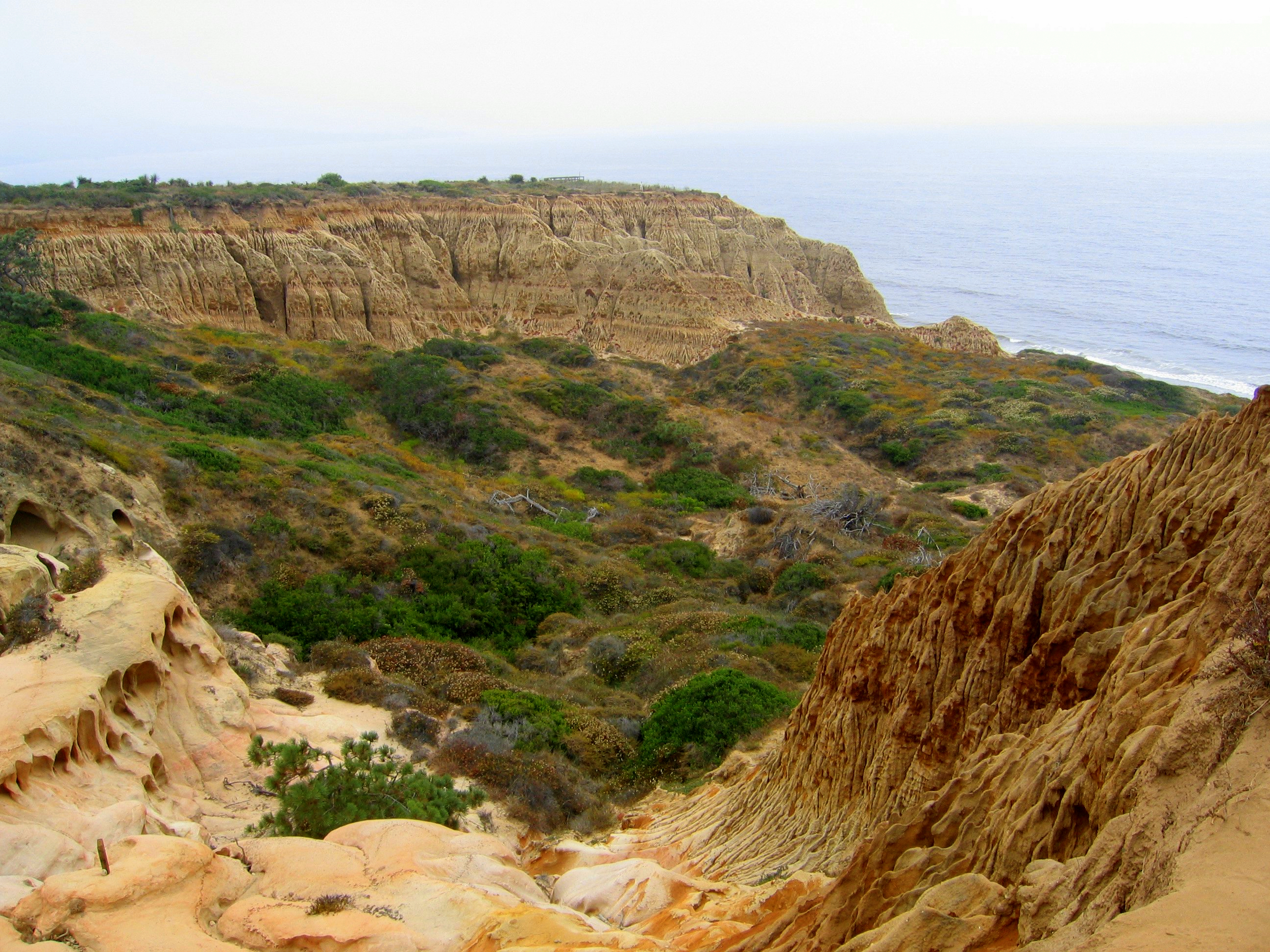 Coastal sage and chaparral sub-ecoregion habitat — at Torrey Pines State Reserve in San Diego, California.